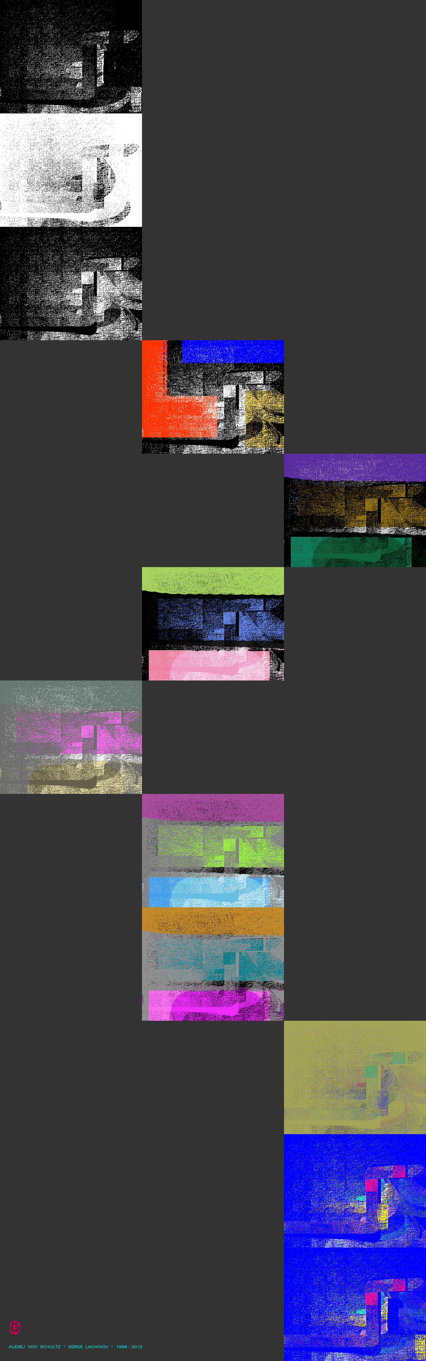 "Time, Place and Color" - a fragment of a sketch for a concept (mixed media): film, photos, graphics, and soundtracks (attached)